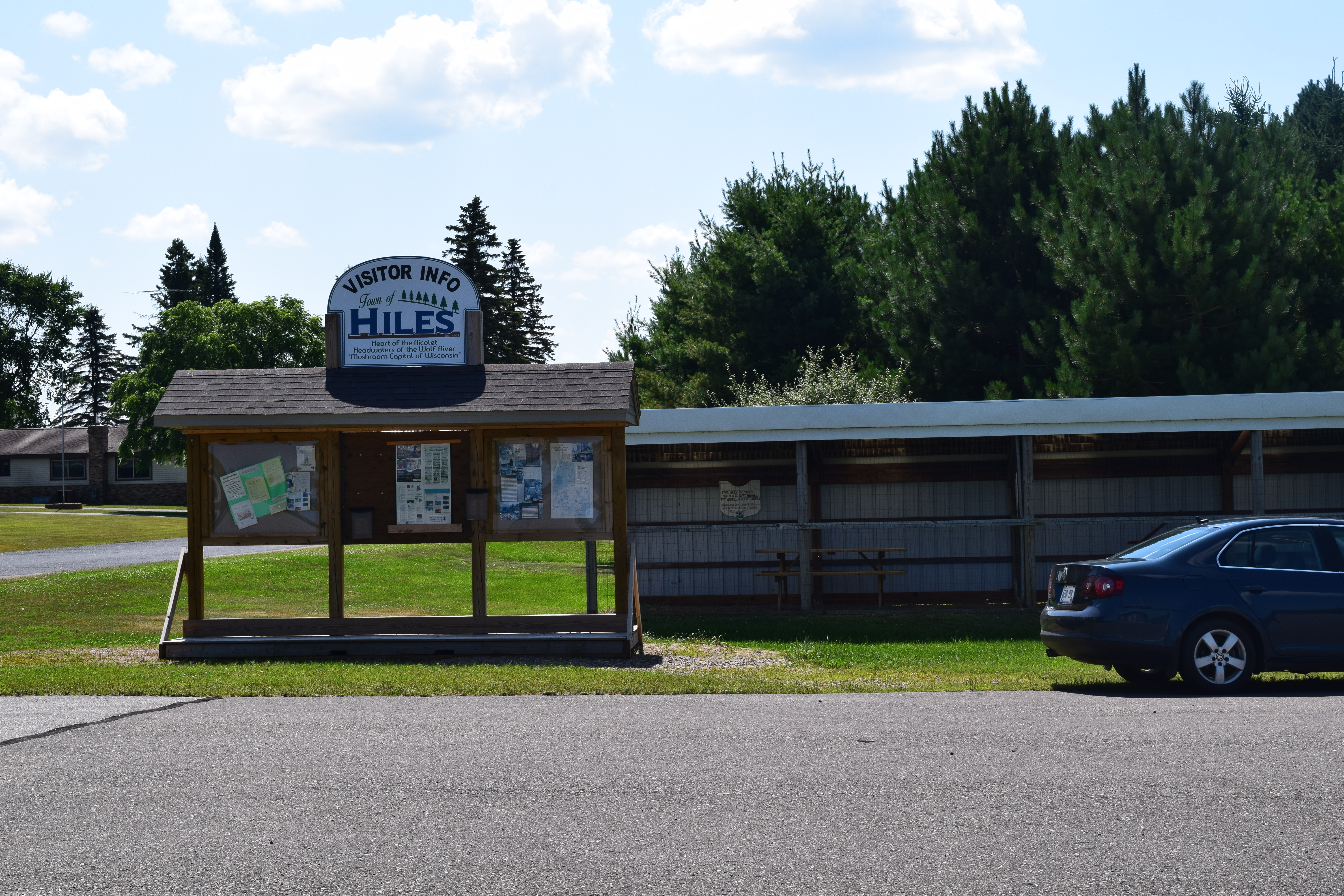 Visitor information board in the Town of Hiles, Wisconsin, within the community of Hiles.